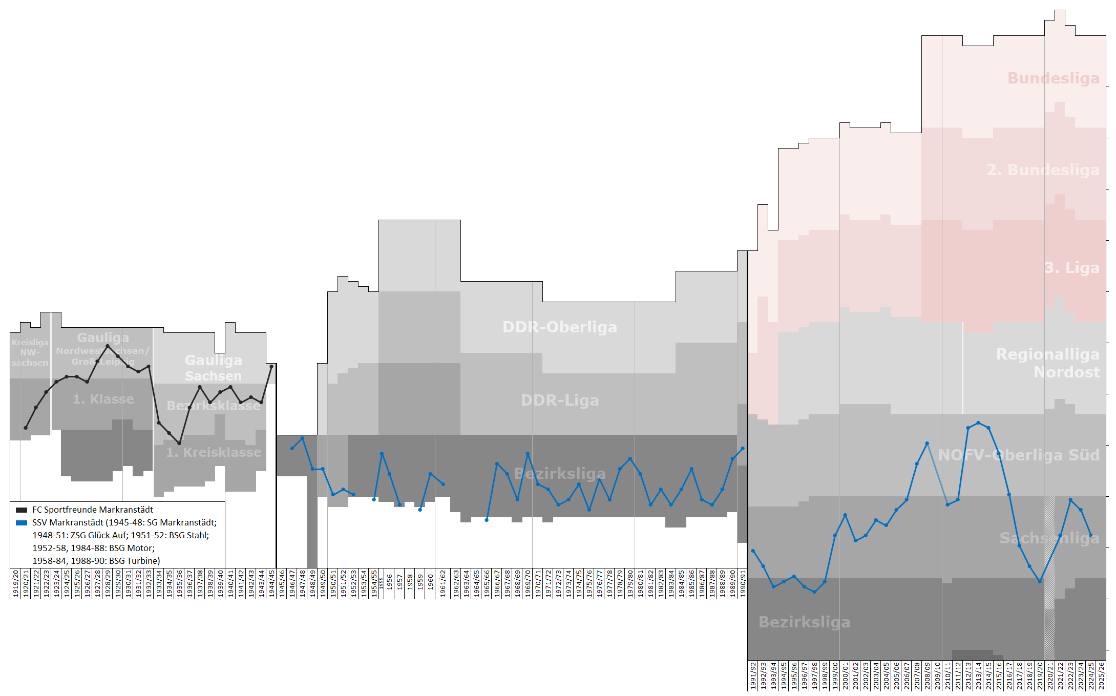 Chart of end-season table positions of SSV Markranstädt in the football league system of Germany and GDR. Data source: RSSSF, wikipedia, f-archiv.de, fussball.de